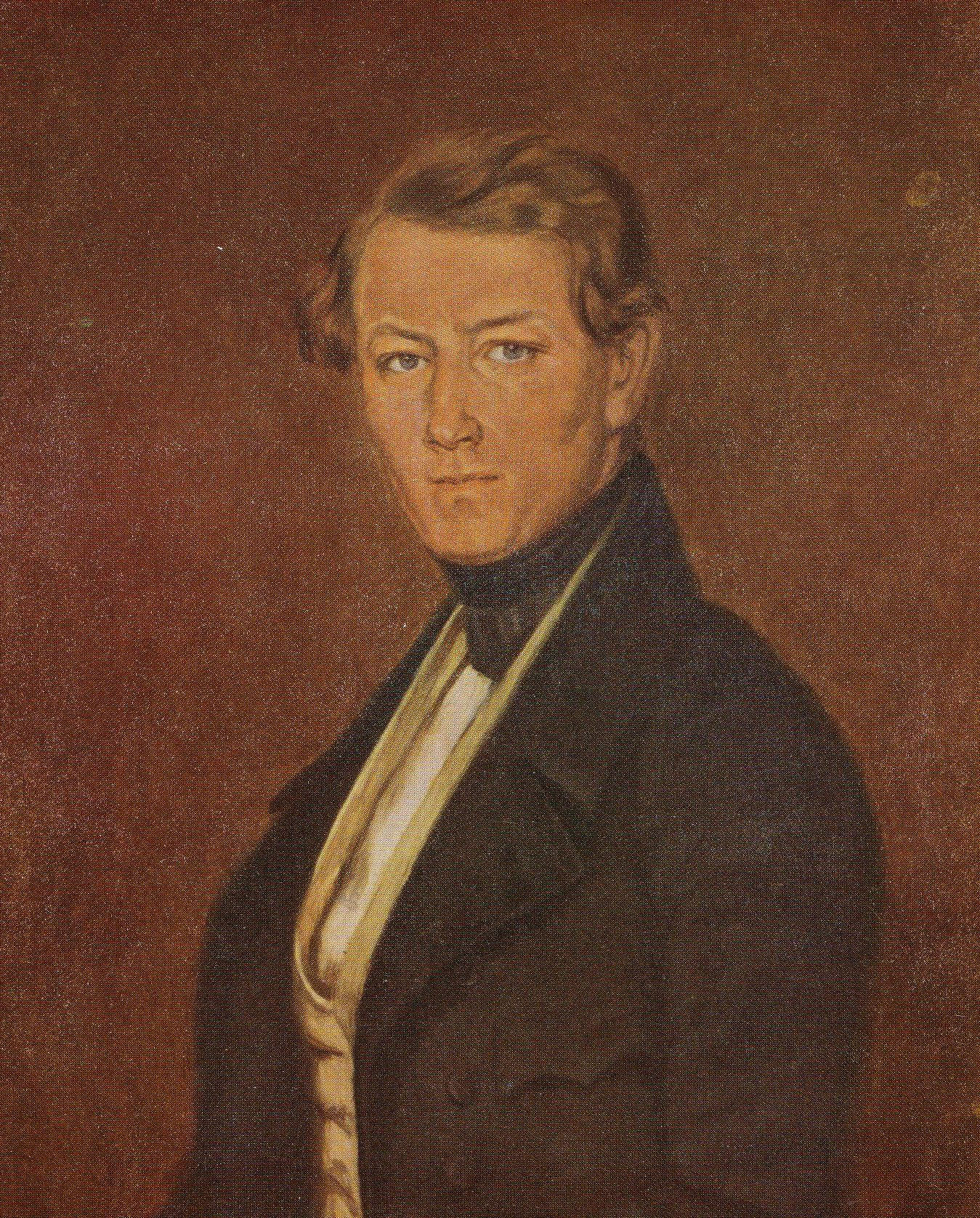 Oil painting portrait of Karl Widmann (1805-1876)